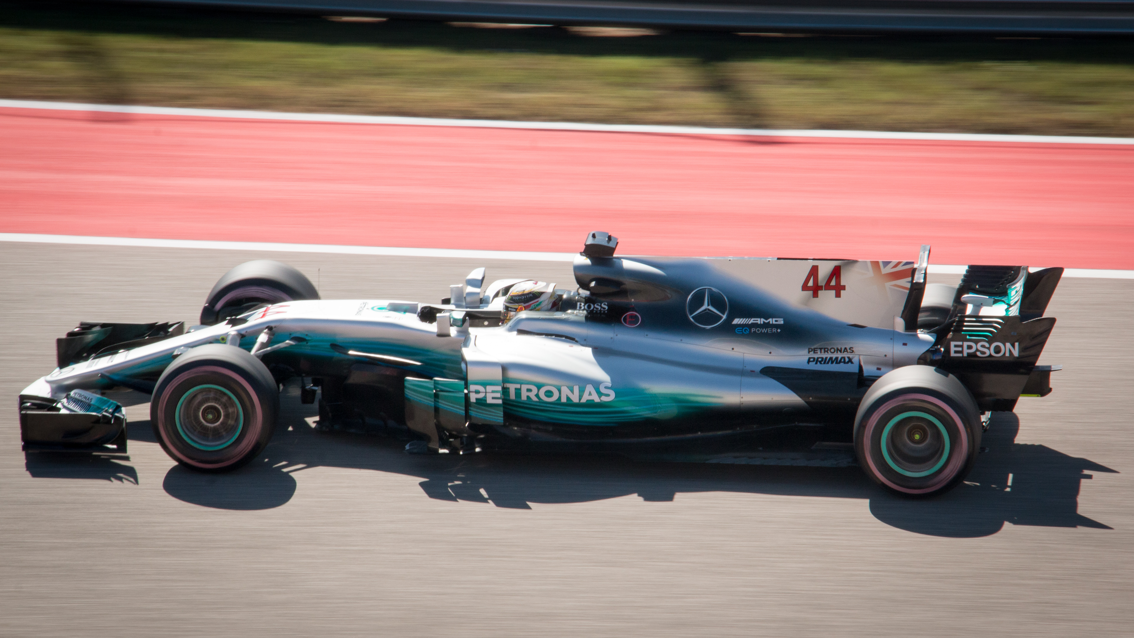 USGP Austin Oct 2017